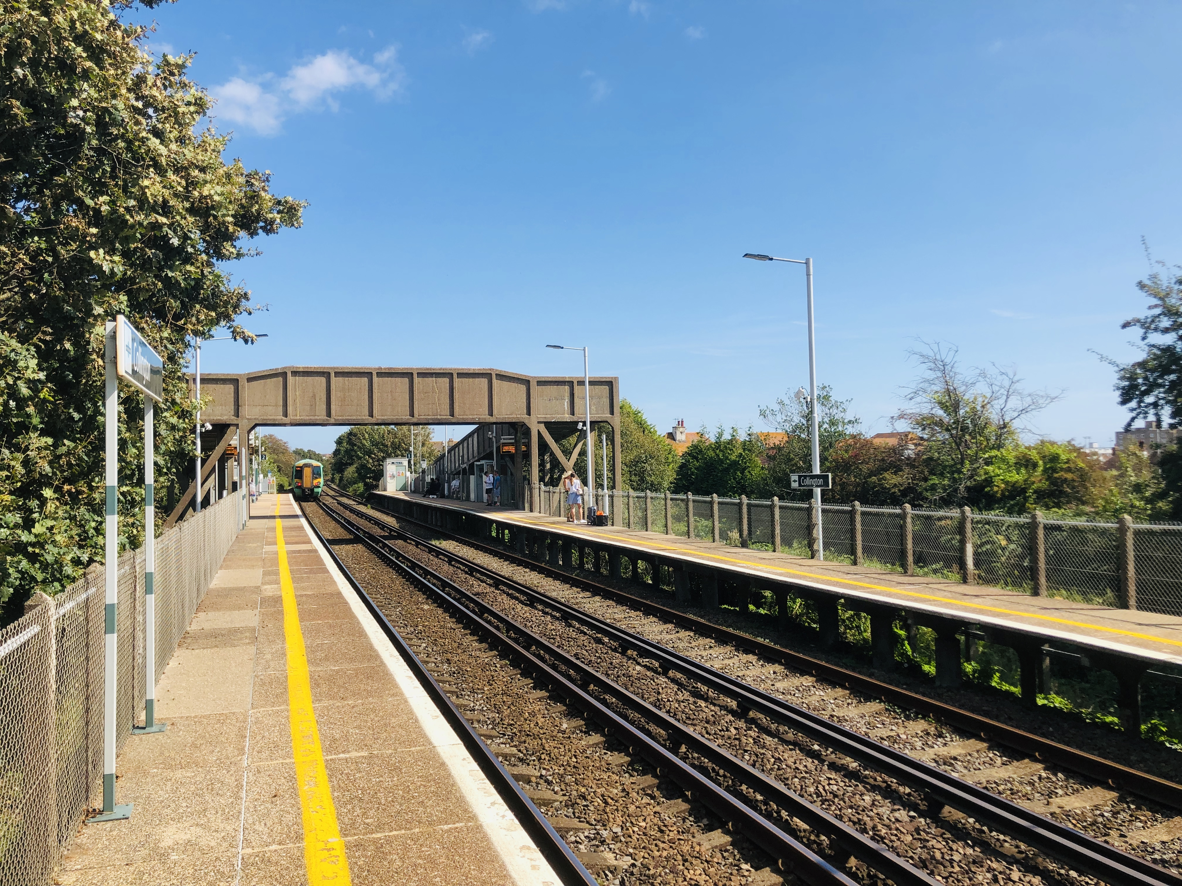 The platforms at Collington railway station, looking east towards Bexhill and Hastings. Picture taken from the western end of the eastbound platform 2.